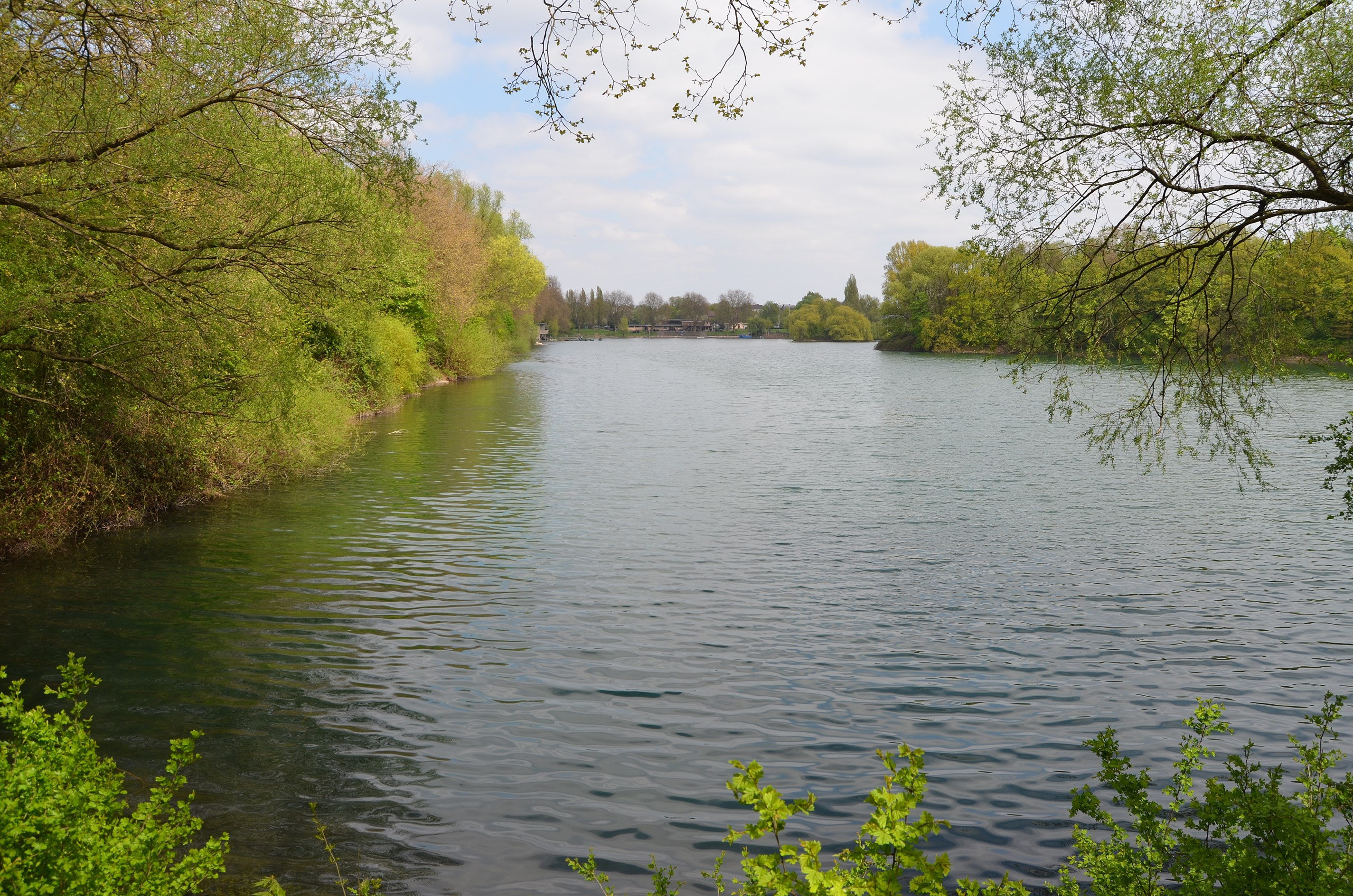 Duisburg (North Rhine-Westphalia, Germany) – borough Rheinhausen, district Friemersheim – lake Kruppsee This photograph was taken with a Nikon D7000.